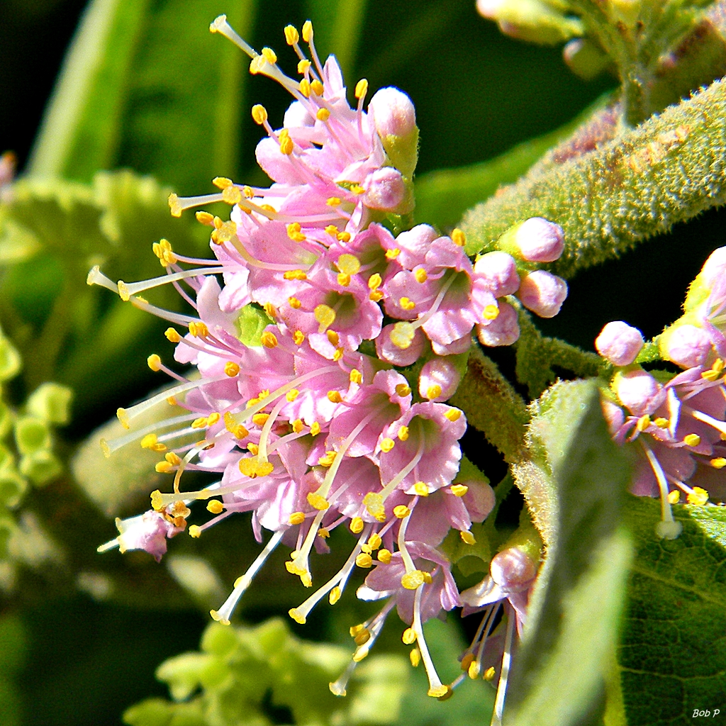 Tiny pink blossoms that will eventually become pretty purple berries, at Juno Dunes Natural Area.